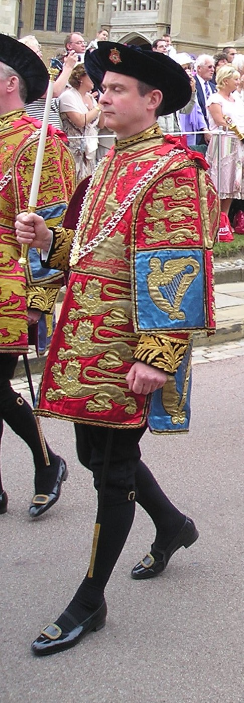 Timothy Duke, Chester Herald, in procession to St George's Chapel, Windsor Castle for the annual service of the Order of the Garter.